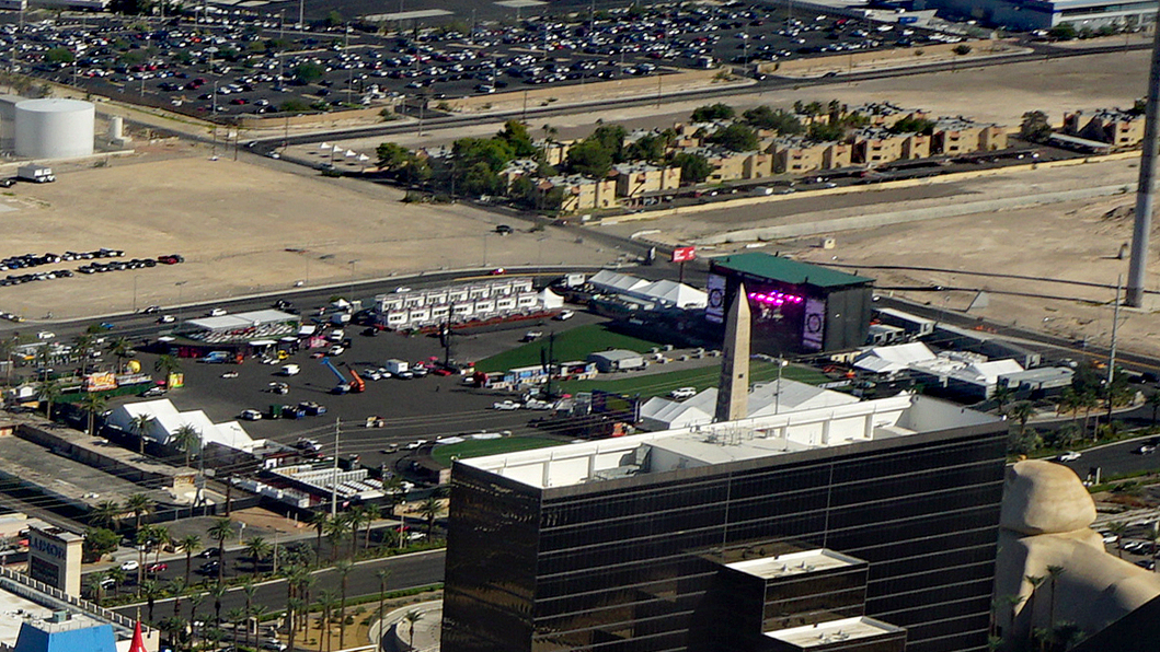 Route 91 Harvest Festival shooting site, Las Vegas Village and Festival Grounds, Las Vegas Strip, Nevada. Pictures taken one week before the beginning of the country music festival from a helicopter, adjusted with Photoshop to reduced window glare and stains in the glass. The image shows final preparations for the Route 91 Harvest Festival and the surrounding main casinos and hotels.